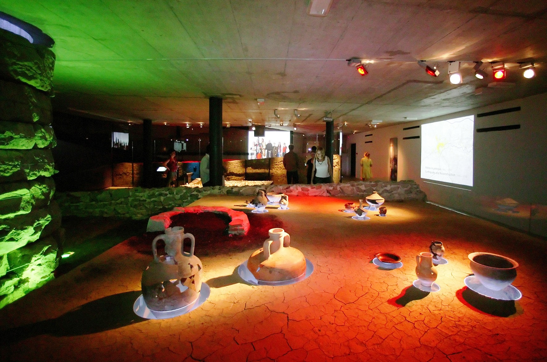 Roman ruins exhibited in the basement of the City Museum of Ljubljana.